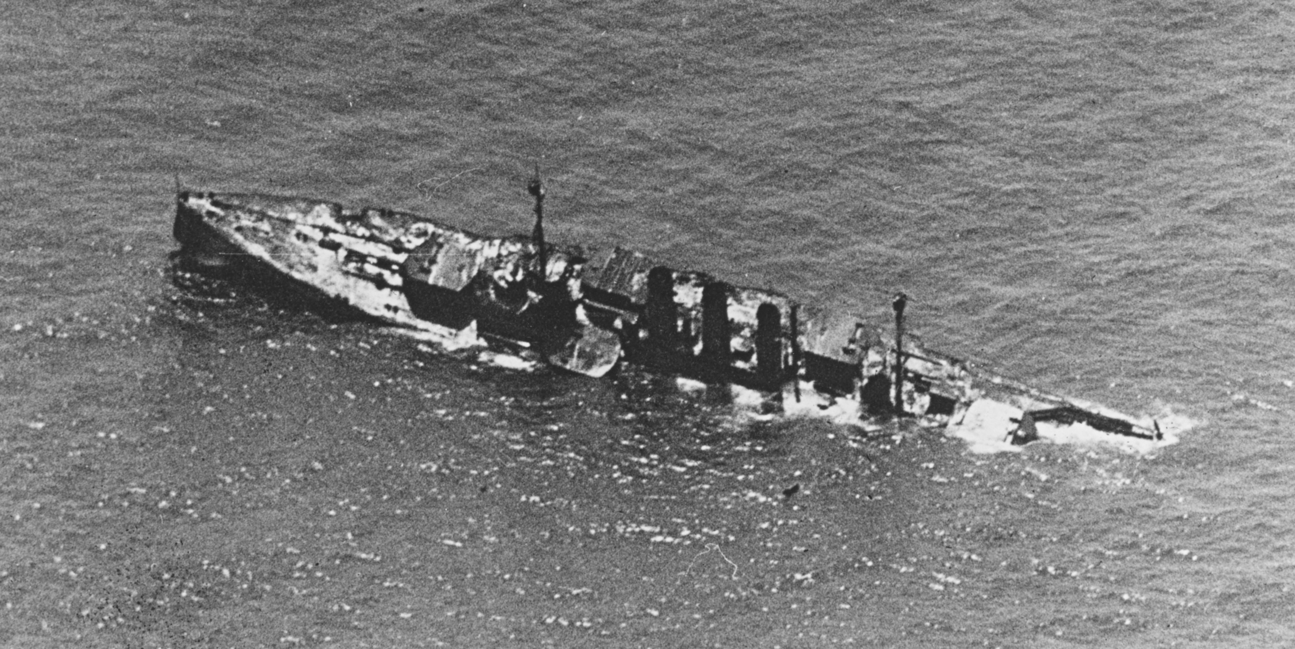 Battleship Ostfriesland, 20-21 July 1921, attacked by Marine Corps, Navy, and Army planes.